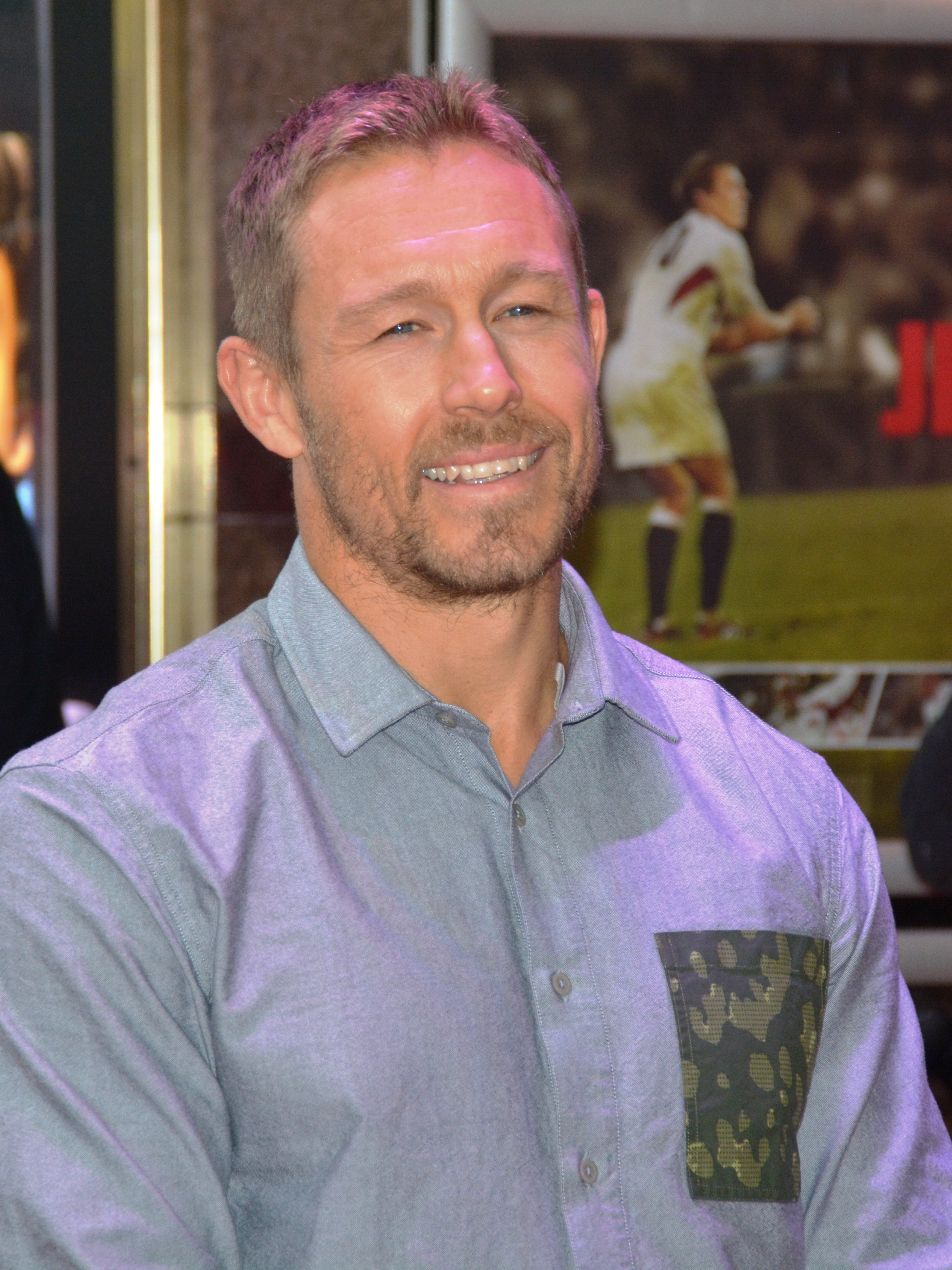 Jonny Wilkinson - trimmed image to focus on person. Photo taken at the world premiere of the film Building Jerusalem at the Empire Leicester Square on September 1, 2015 in London, U.K.